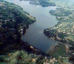 Picture of Guajataca Dam in Puerto Rico